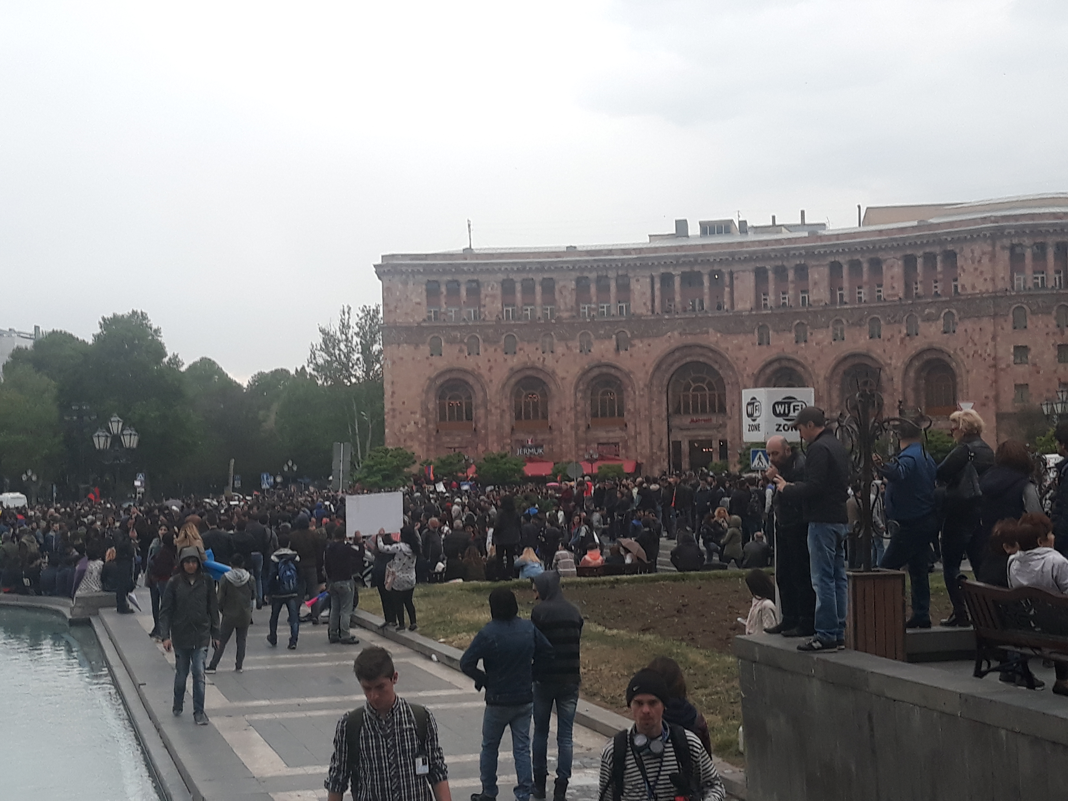 Protests against Serzh Sargsyan